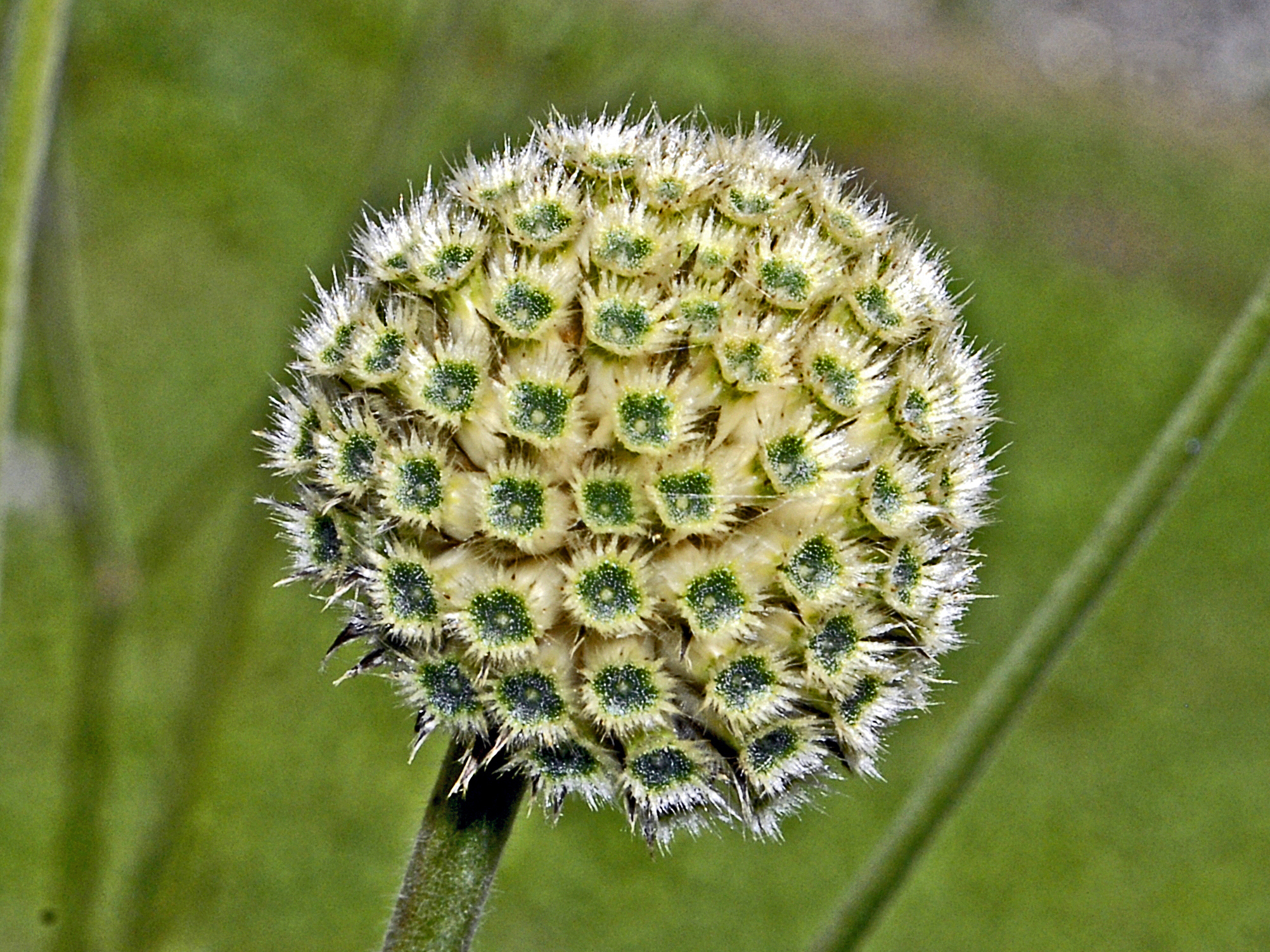 Inflorescence of Cephalaria alpina at the Paradisia Alpine Botanical Garden